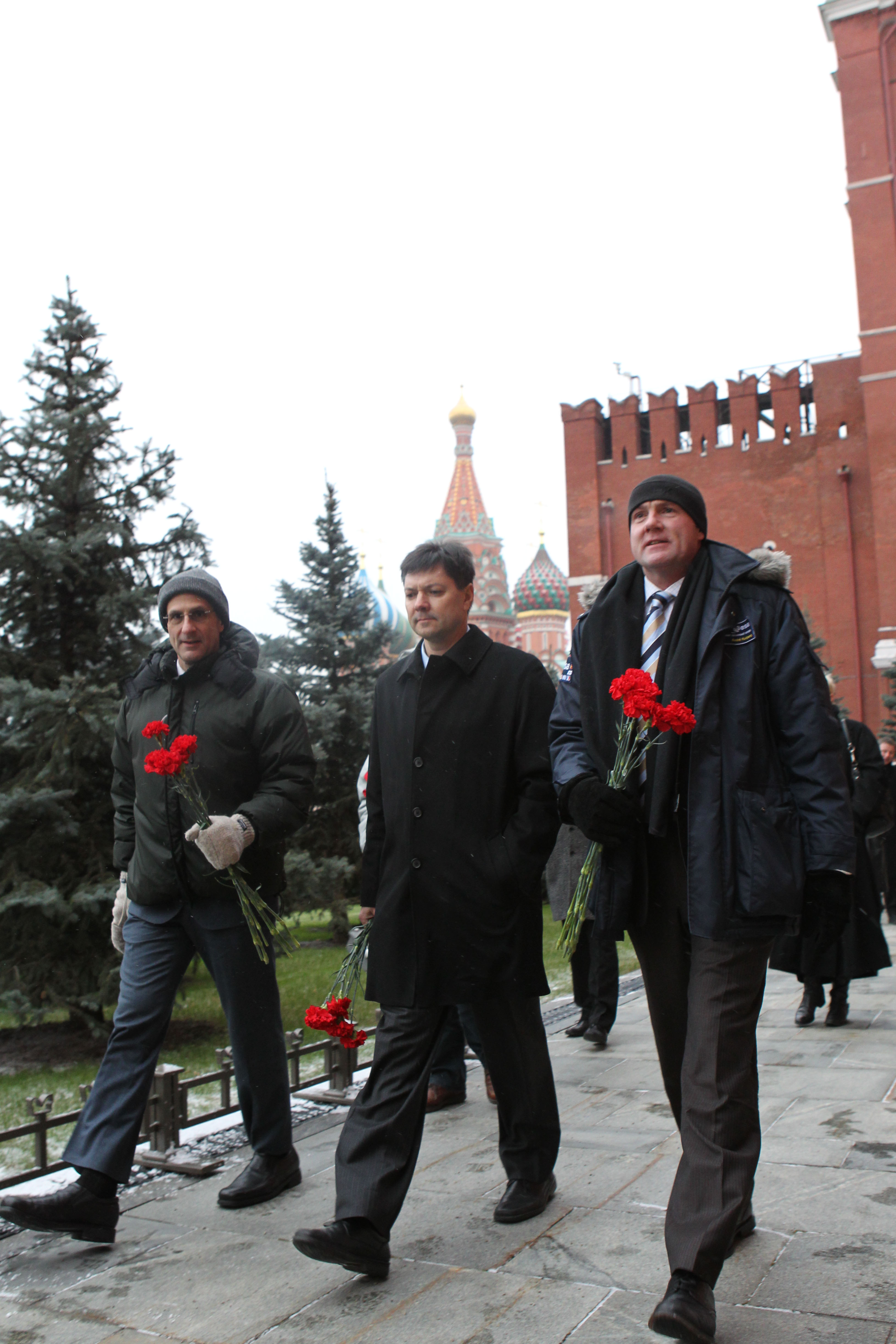 At the Kremlin Wall in Moscow, the next trio to launch to the International Space Station prepare to lay flowers at the site where Russian space heroes are interred during their traditional ceremony Dec. 1, 2011. From left to right are Expedition 30 NASA Flight Engineer Don Pettit, Soyuz Commander Oleg Kononenko and Flight Engineer Andre Kuipers of the European Space Agency. The crew members are scheduled to launch from the Baikonur Cosmodrome in Kazakhstan on Dec. 21 on their Soyuz TMA-03M spacecraft.